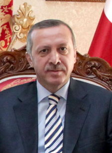 Turkish Prime Minister Recep Tayyip Erdoğan.